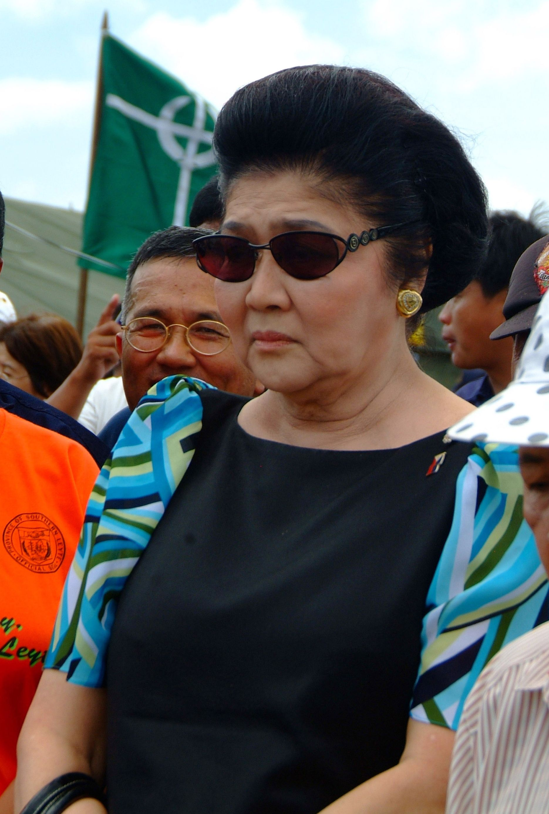 Imelda Marcos; 060222-N-4772B-100 Guinsahugon Village, Republic of the Philippines (Feb. 22, 2006) - Wife of late Philippine President Ferdinand Marcos, Imelda Marcos, prays near the site of a devastating landslide that struck southern Leyte on Feb. 17, 2006. Sailors and Marines from the Forward Deployed Amphibious Ready Group (ARG) with elements of the 31st Marine Expeditionary Unit (MEU), Joint Task Force (JTF) Balikatan and the USS Curtis Wilbur (DDG 54) arrived off the coast of Leyte Feb. 19 to provide humanitarian assistance and disaster relief to the victims of the area. U.S. Navy photo by Journalist 2nd Class (RELEASED)